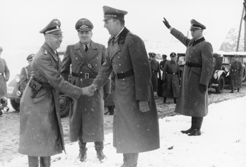 Poland, Kraków. – Laying of the foundation stone for a police station. F.l.t.r. Heinrich Himmler, Dr. Hans Frank, Kurt Daluege.